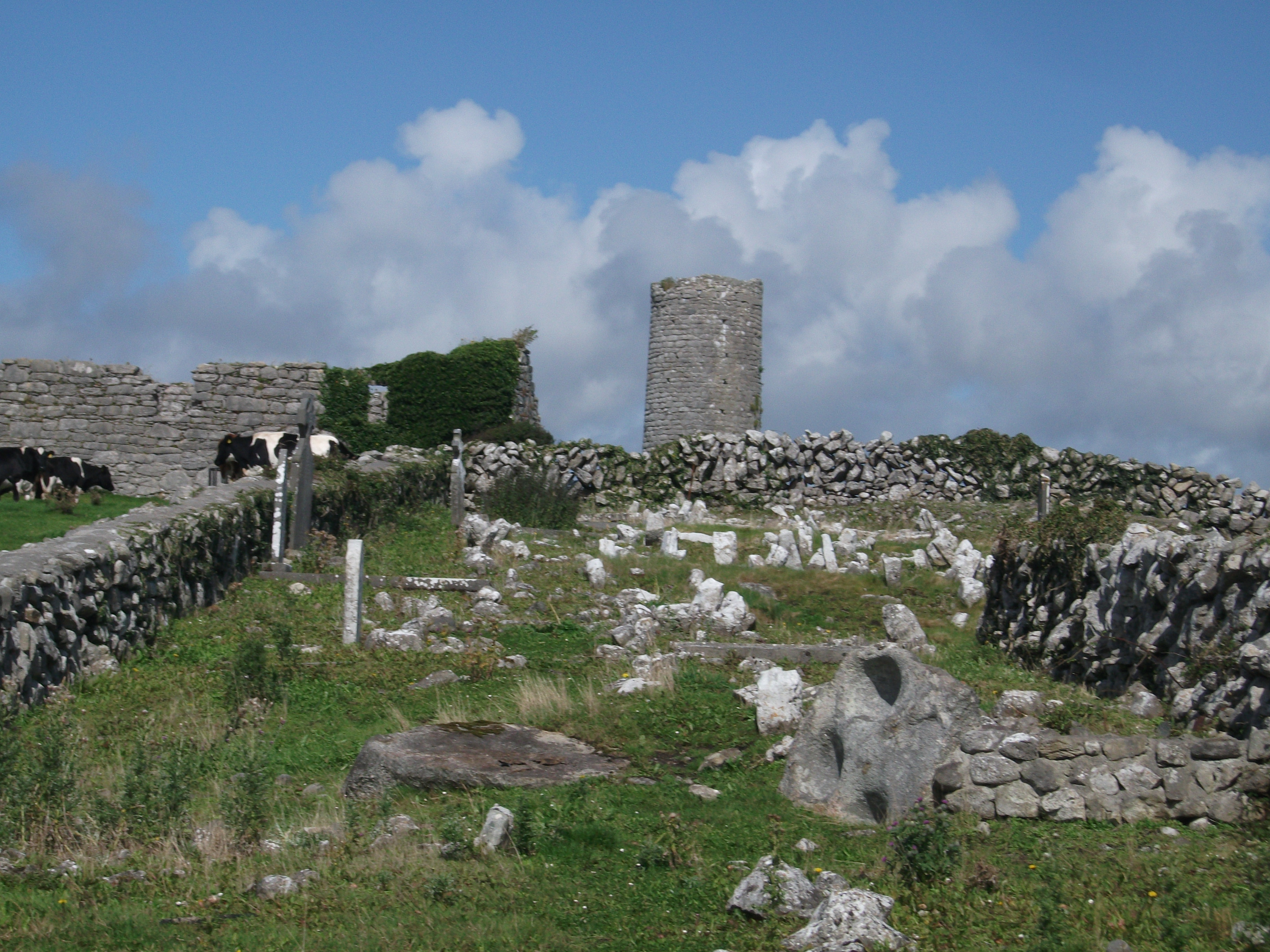 Roscam Early Medieval Ecclesiastical Site